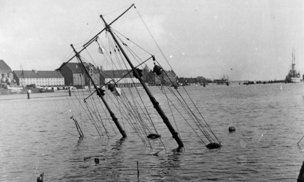 Sælen and Nordkaperen sunken by their own crews at Holmen, 29 August 1943